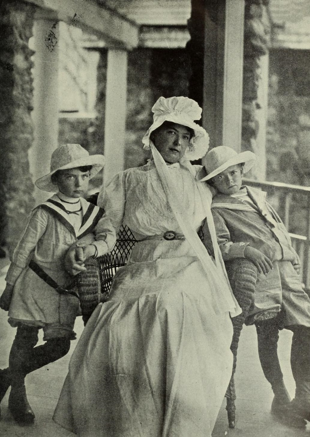 "Mrs. Carol Brooks MacNeil and the two boys."